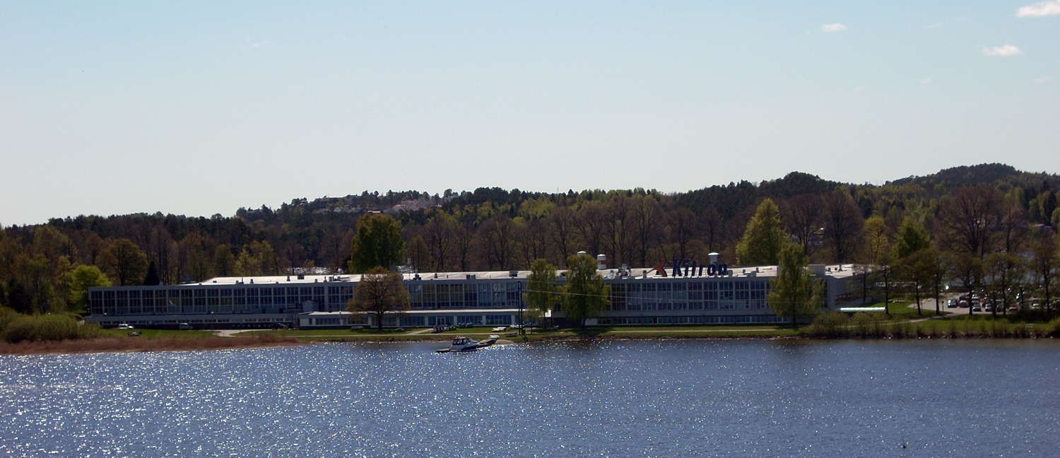 Kitron company in Hisøy, ARendal